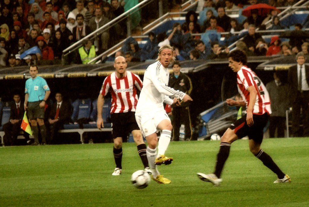 Guti of Real Madrid.